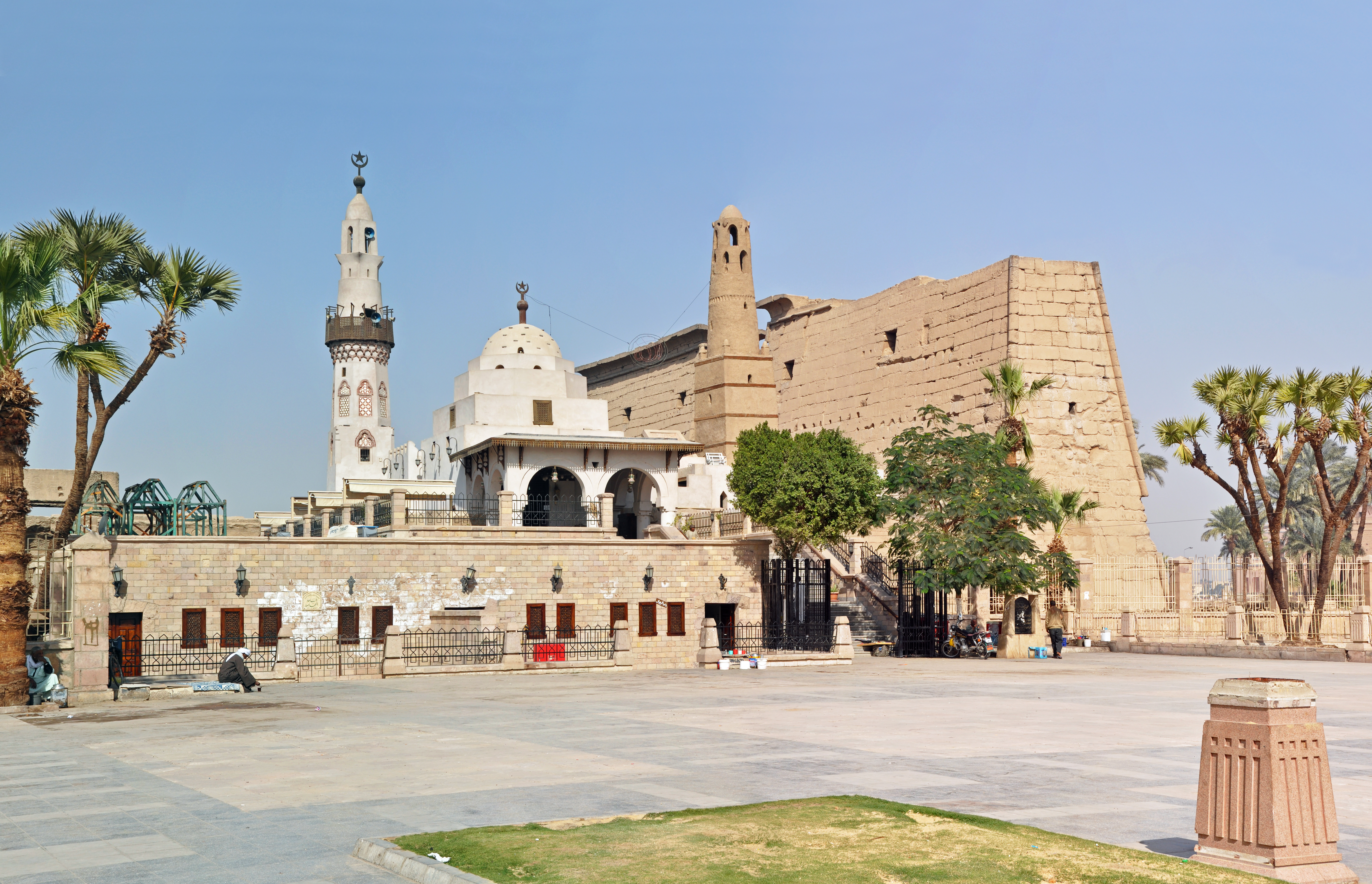 Luxor (Egypt): Abu el-Haggag mosque and pylon of Luxor temple